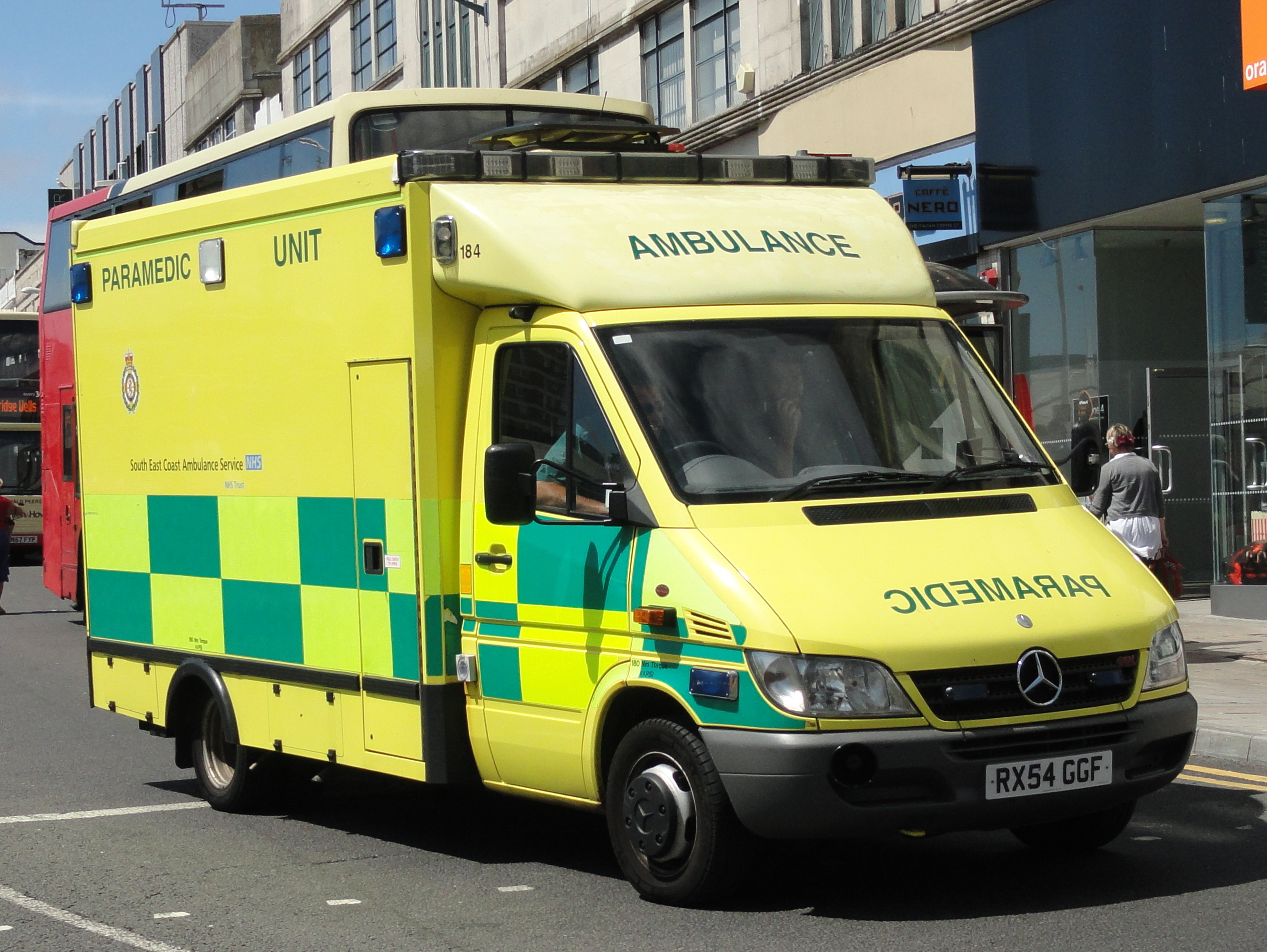 Photographed in the United Kingdom.